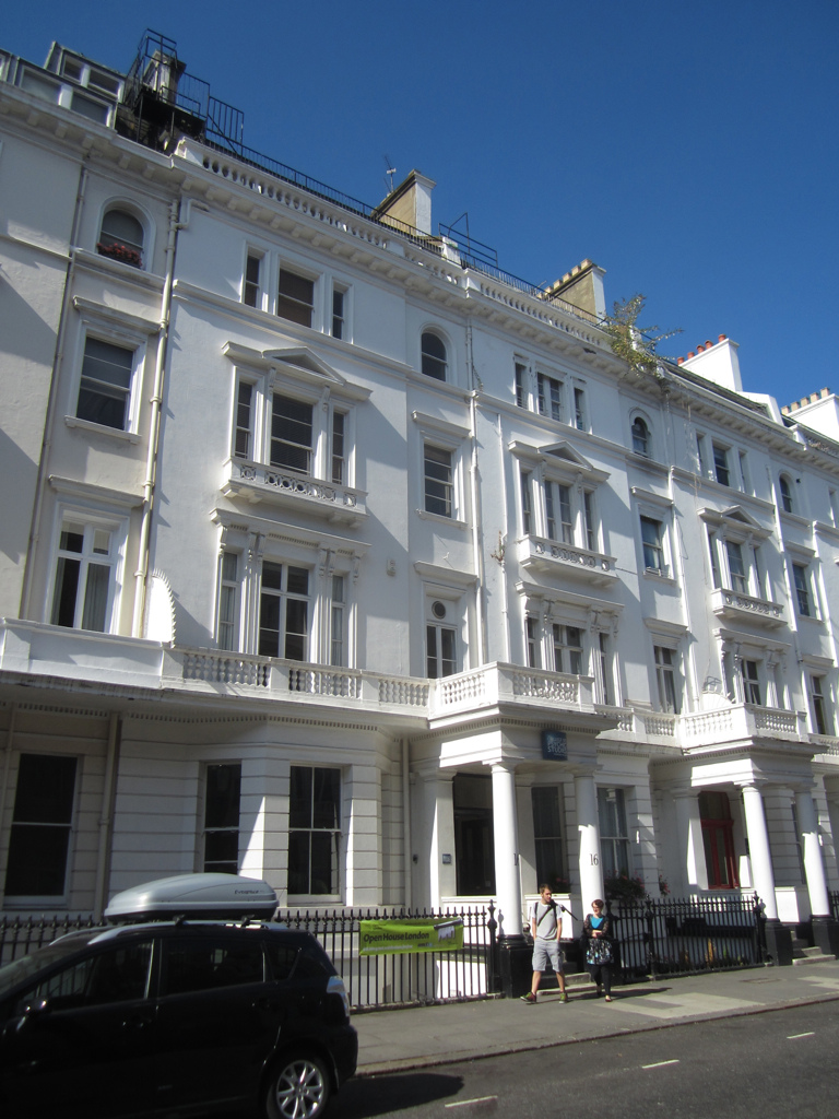 Full of deeply strange people.